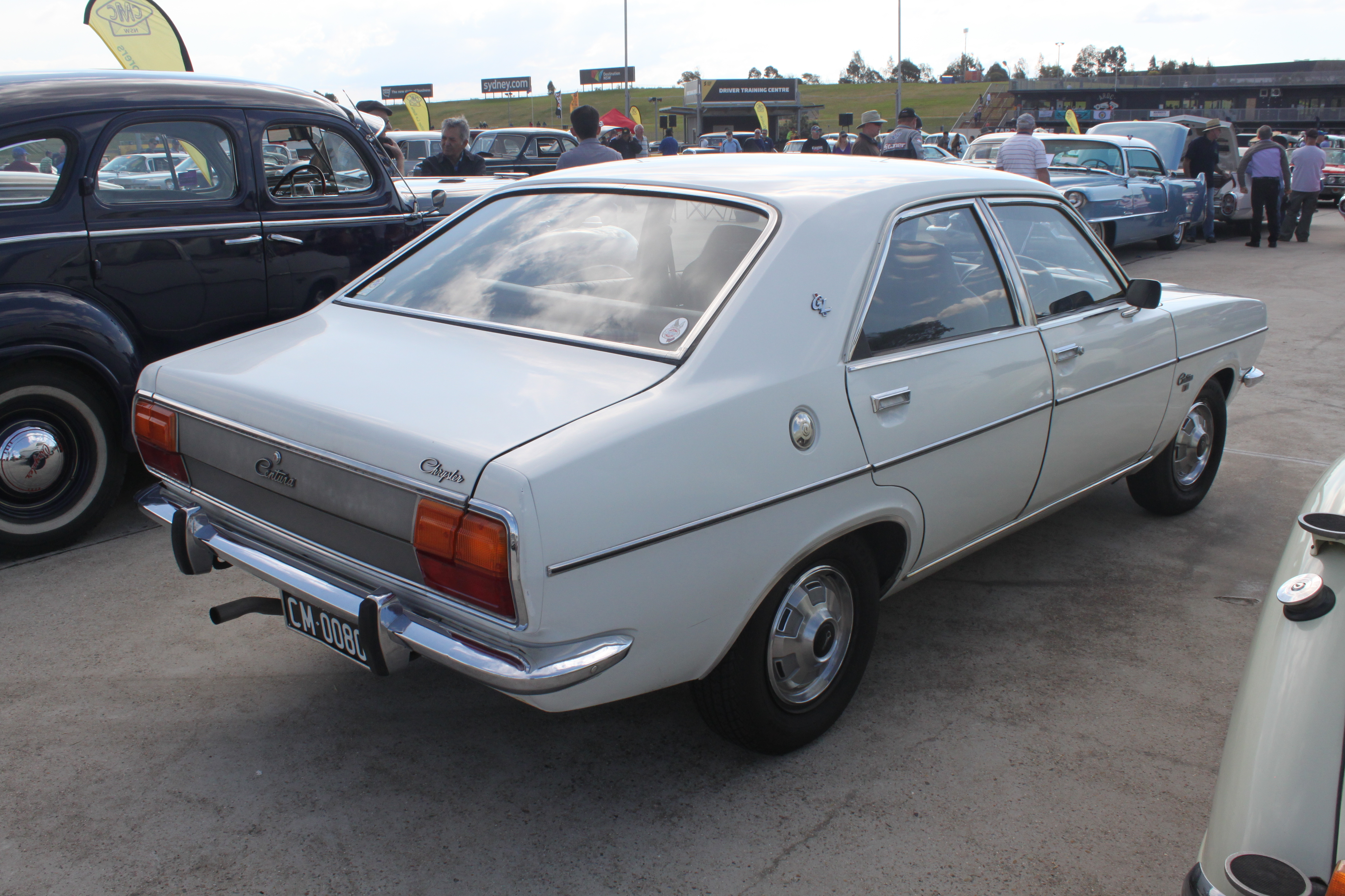 Shannon's Classic, Eastern Creek, NSW August 2015